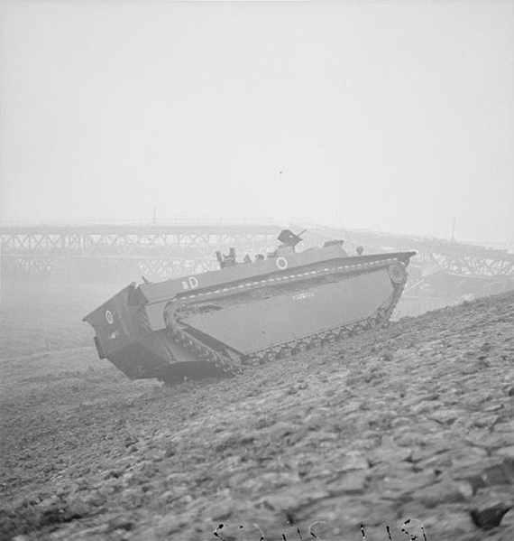 (From IWM Description Page):A Buffalo of 79th Armoured Division on the banks of the River Ijssel at Arnhem, with the blown railway bridge in the background, 13 April 1945.